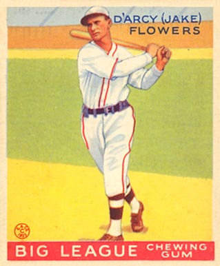 1933 Goudey baseball card of Jake Flowers of the St. Louis Cardinals #151. PD-not-renewed.